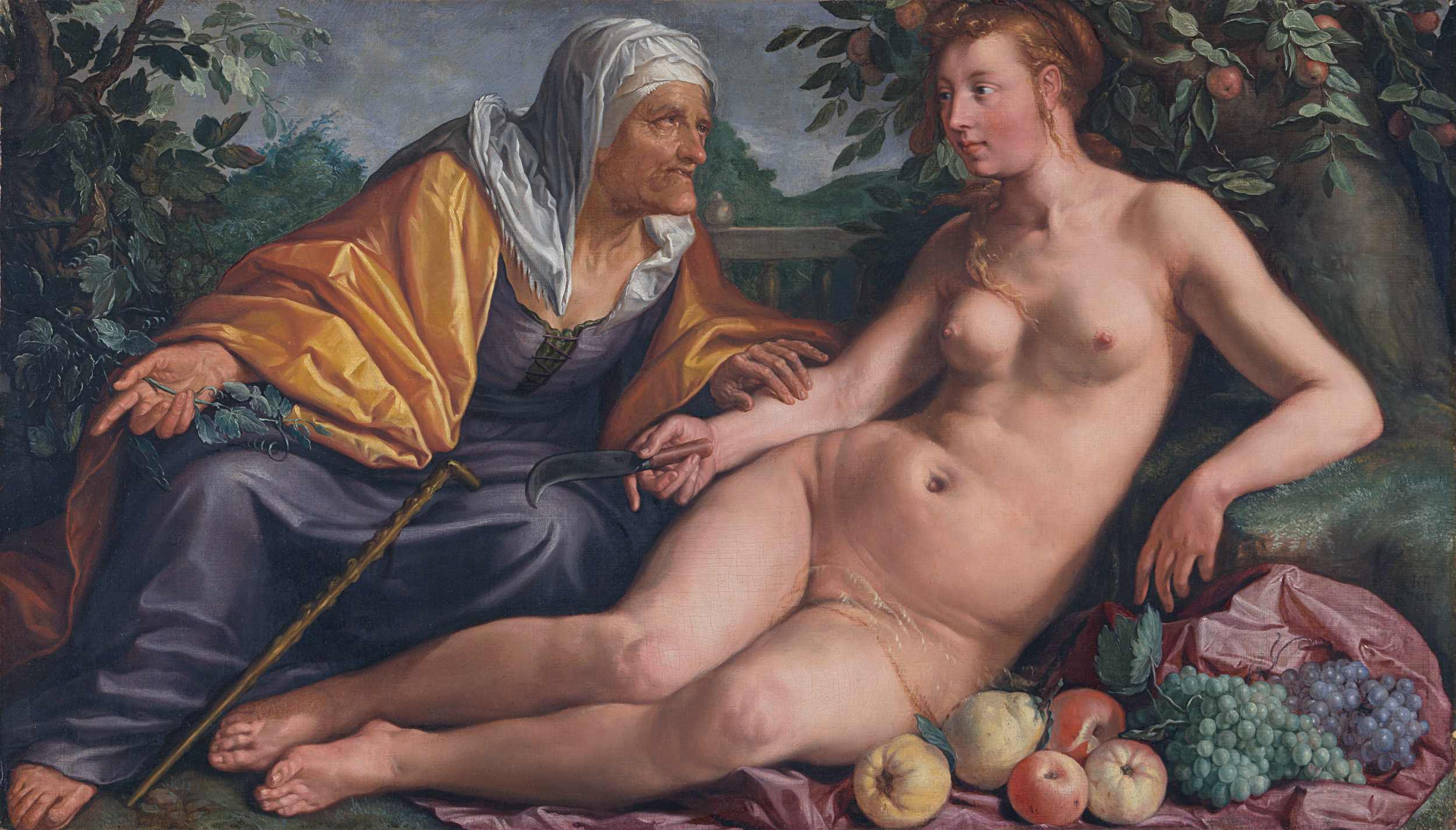 In the shape of a woman, Vertumnus talks to his beloved Pomona. With his right hand Vertumnus grabs a vine. Between his legs rests a walking stick. Pomona lays under an apple tree and holds a knife in her right hand with which she harvests fruit. On the foreground, right, are aples, pears and grapes. The image has been digitally changed from the Rijksmuseum original, see alternate version. The EXIF data on the file has also been changed.